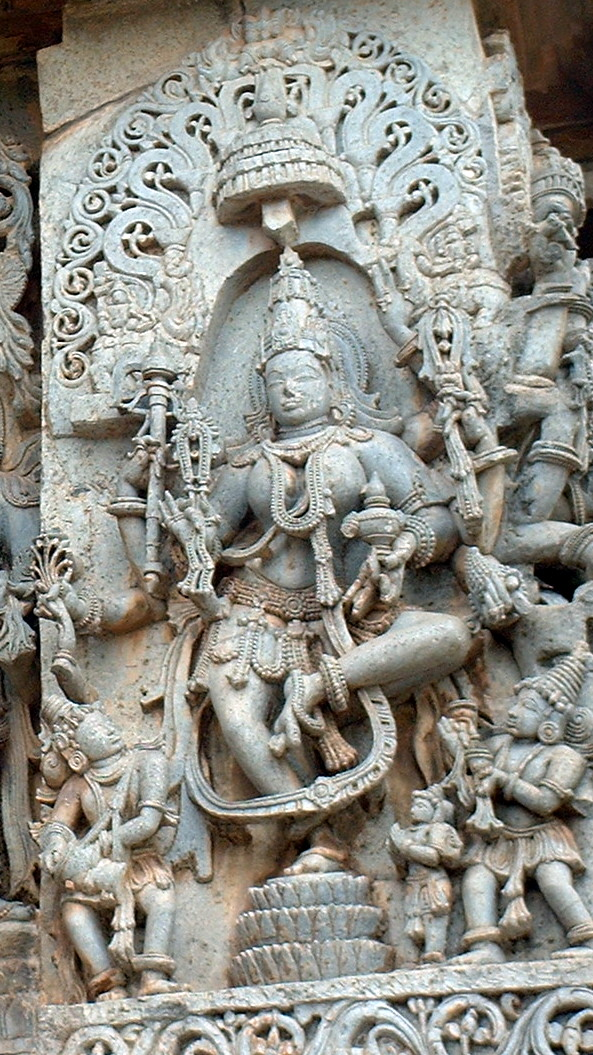 Mohini. Halebid. Identified per p. 64 The man who was a woman and other queer tales of Hindu lore By Devdutt Pattanaik